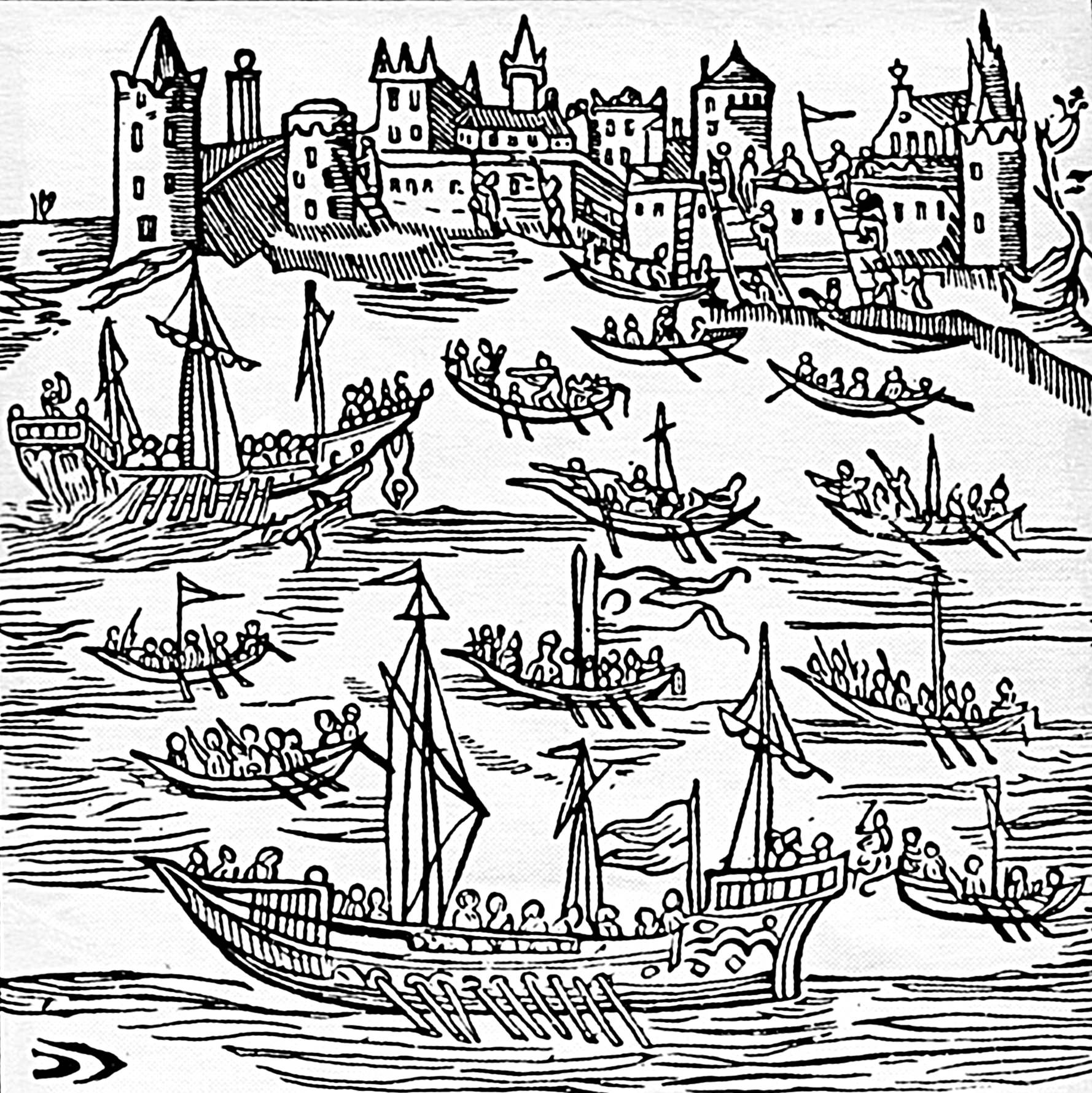 Ukrainian cossacks under the leadership of Petro Konashevych-Sahaidachny capture the Turkish sea-port of Caffa (Feodosia) in 1616. This city was the largest Turkish centre for the human slave trade, and the capture by the cossacks enabled many Christian men, women and children to be freed from a life of slavery. Woodcut from a 1622 book commemorating Petro Konashevych-Sahaidachny.